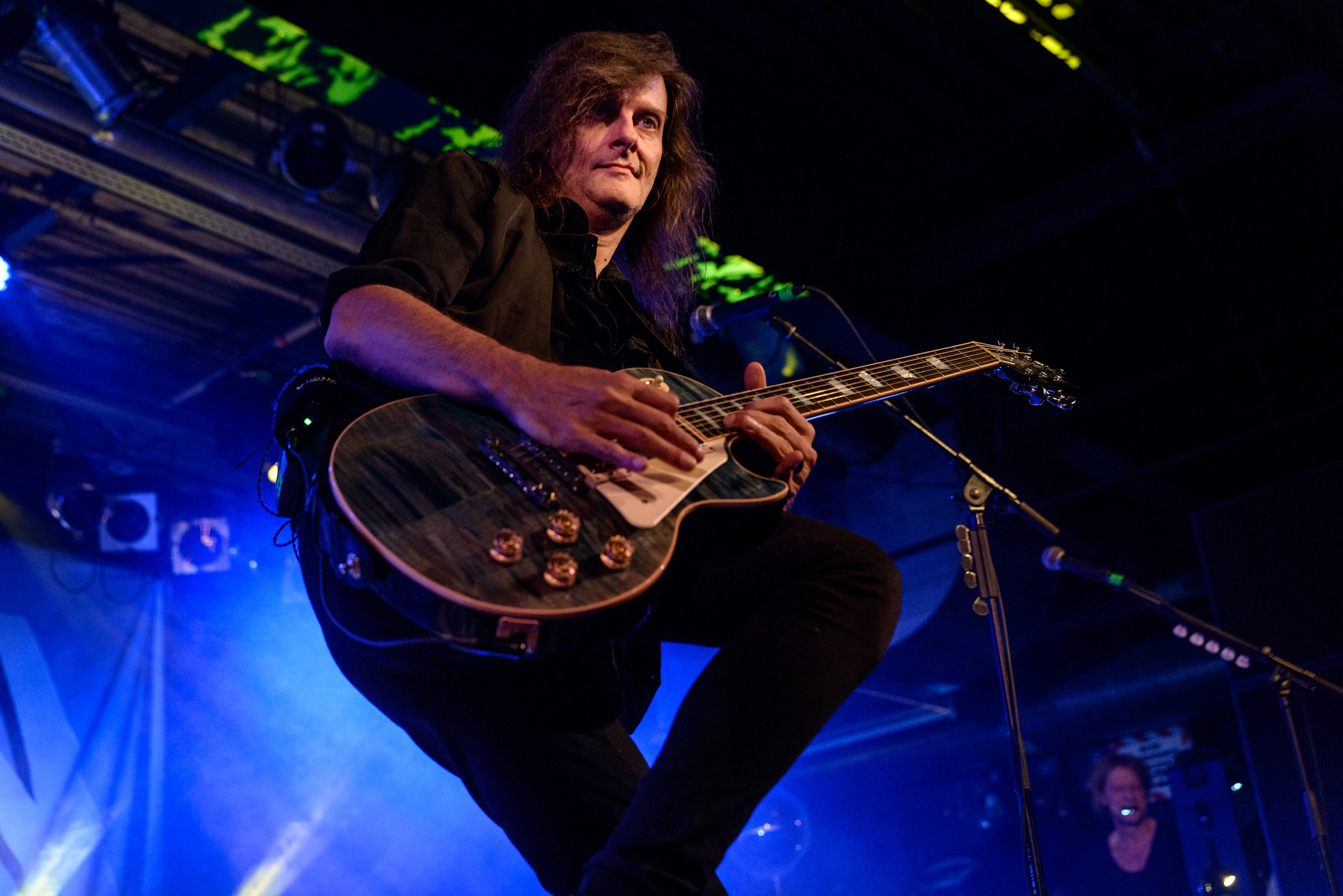 Helloween Live @ Backstage Werk, Munich